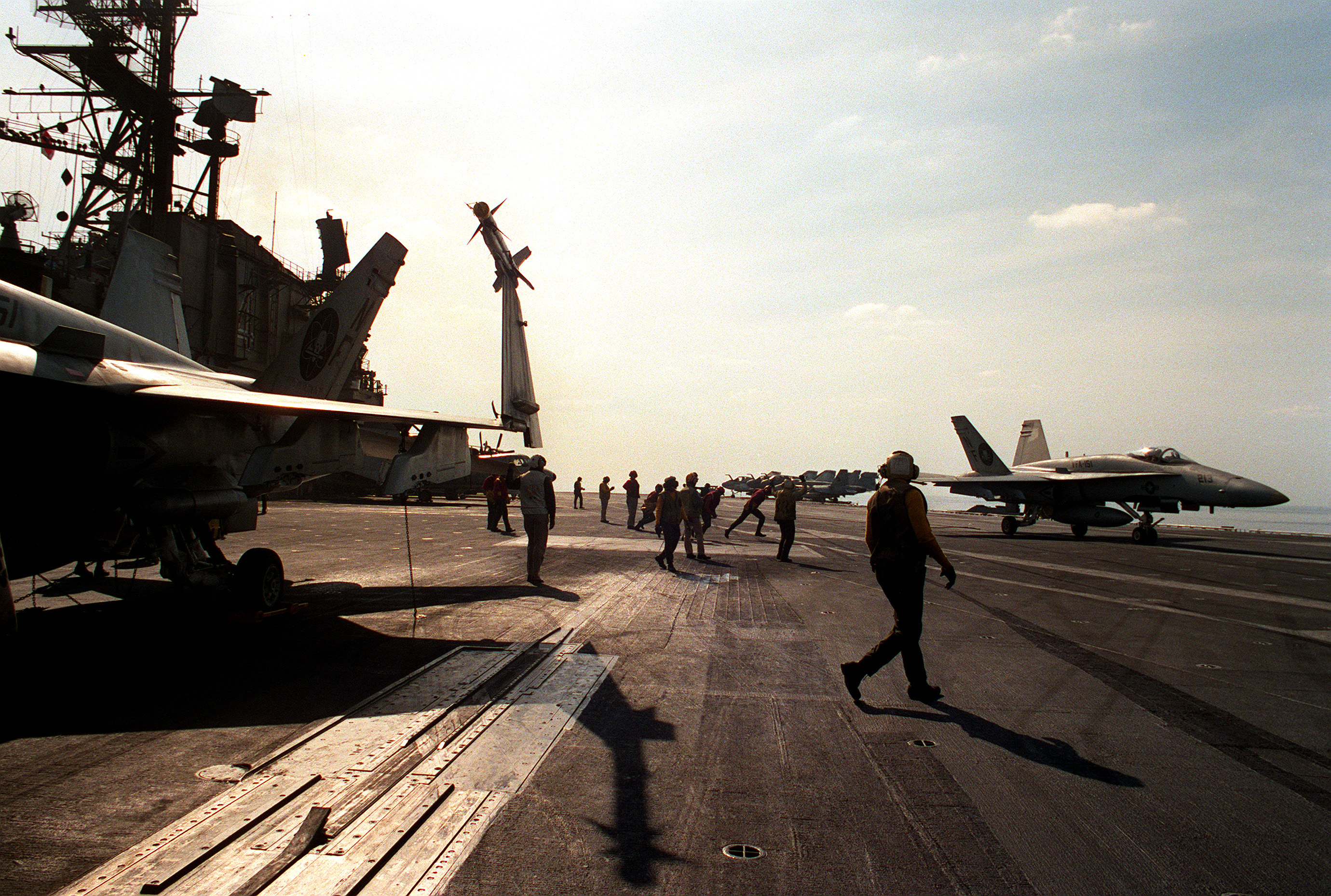 Arresting gear crewmen run toward a Strike Fighter Squadron 151 (VFA-151) F/A-18A Hornet aircraft that has just landed on the flight deck of the aircraft carrier USS Midway (CV-41) during Operation Desert Shield.